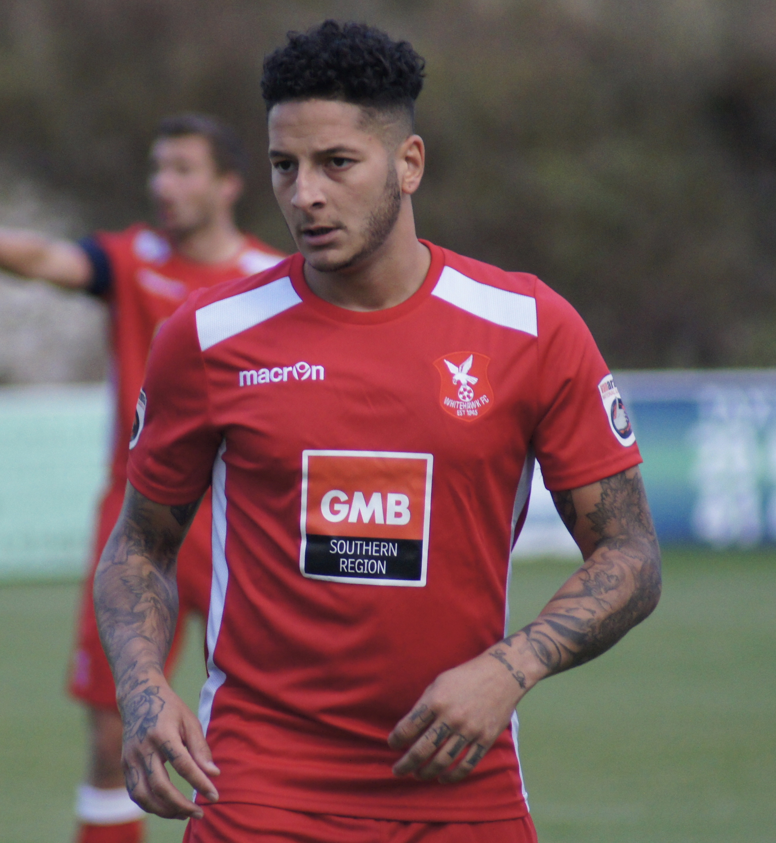 Ramone Rose playing for Whitehawk, August 2017